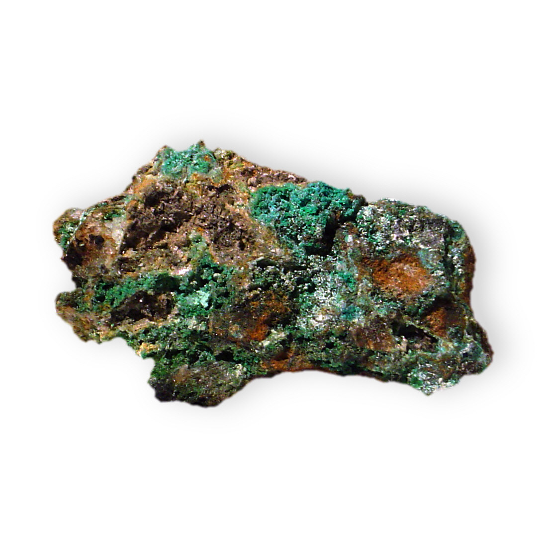 These mineral images are free to use how you wish.